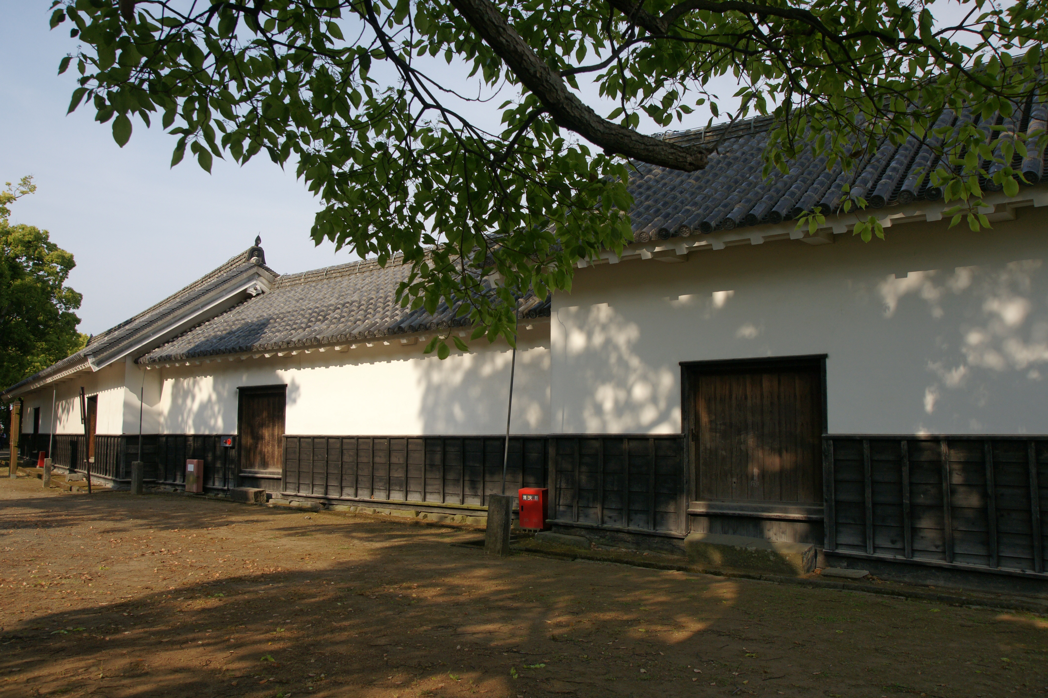 Kumamoto Castle, Kumamoto, Kumamoto prefecture, Japan